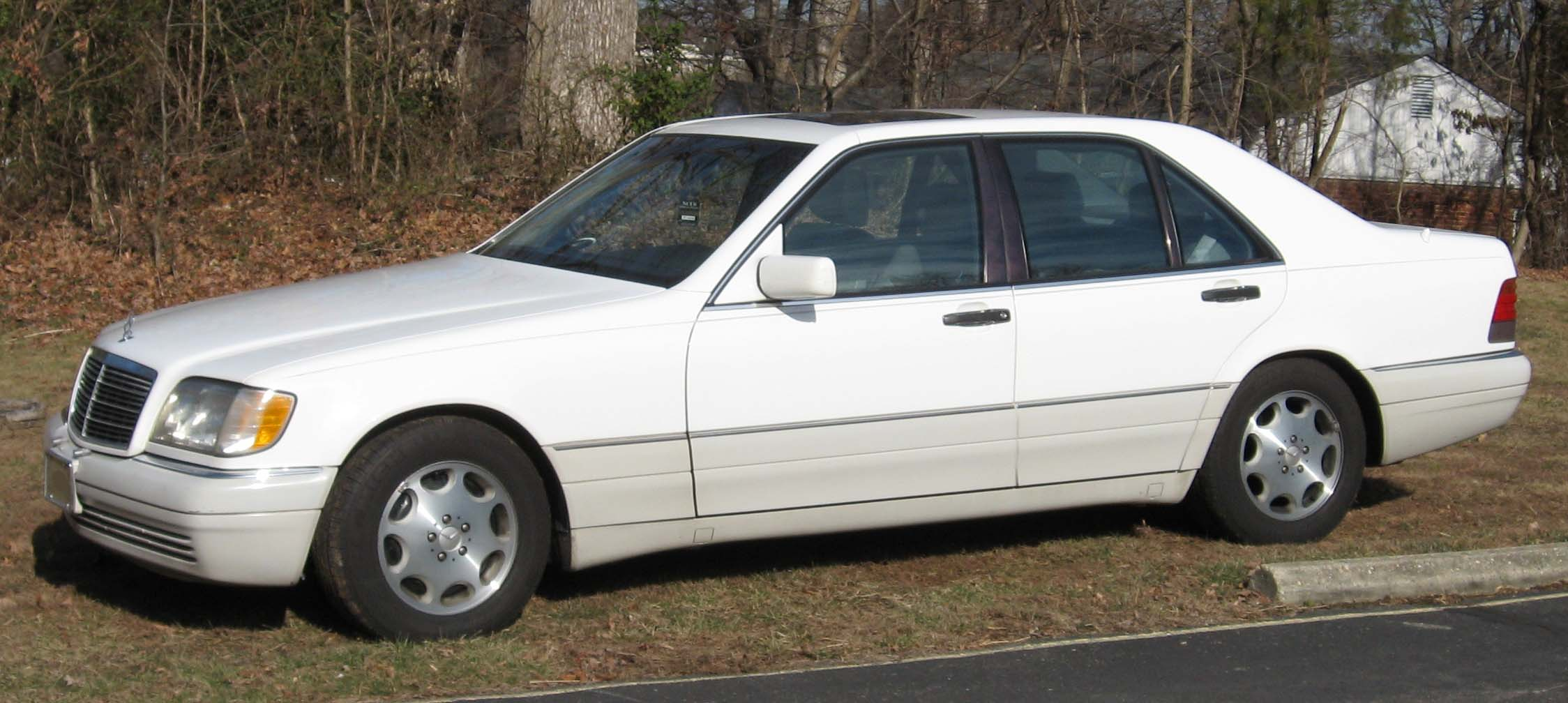 1995-1996 Mercedes-Benz S320 SWB photographed in USA.